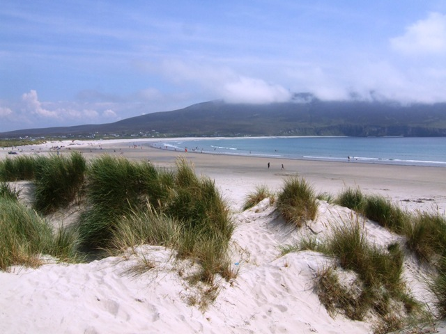 Sand dunes and strand at Keel